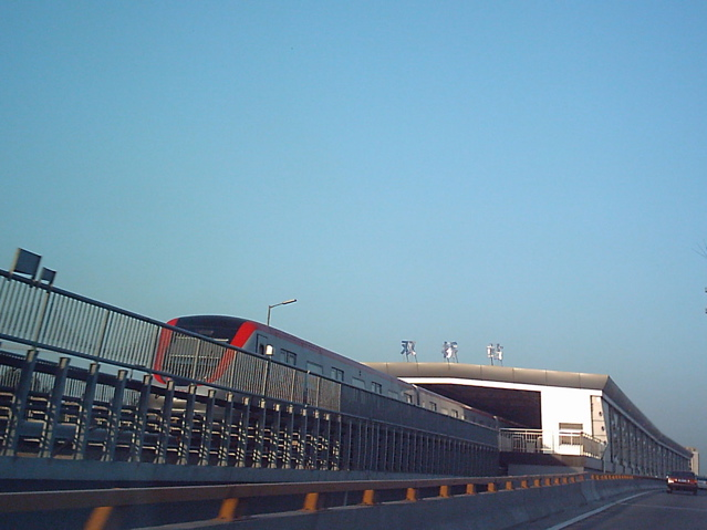 Beijing Underground, New Trainset for Batong Line of Beijing Underground Railway